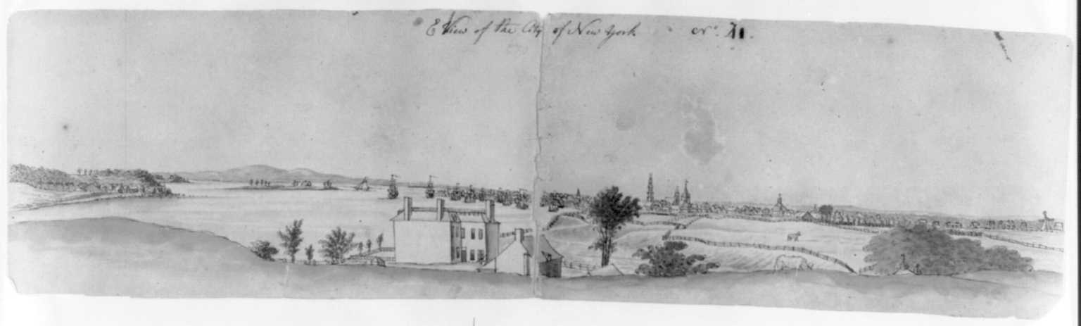 Drawing shows (recto) distant view of New York City, with the Rutgers House in the foreground and the steeple of Trinity Church visible in the background, and (verso) a distant view of New York City, possibly from a point on Long Island near Red Hook.